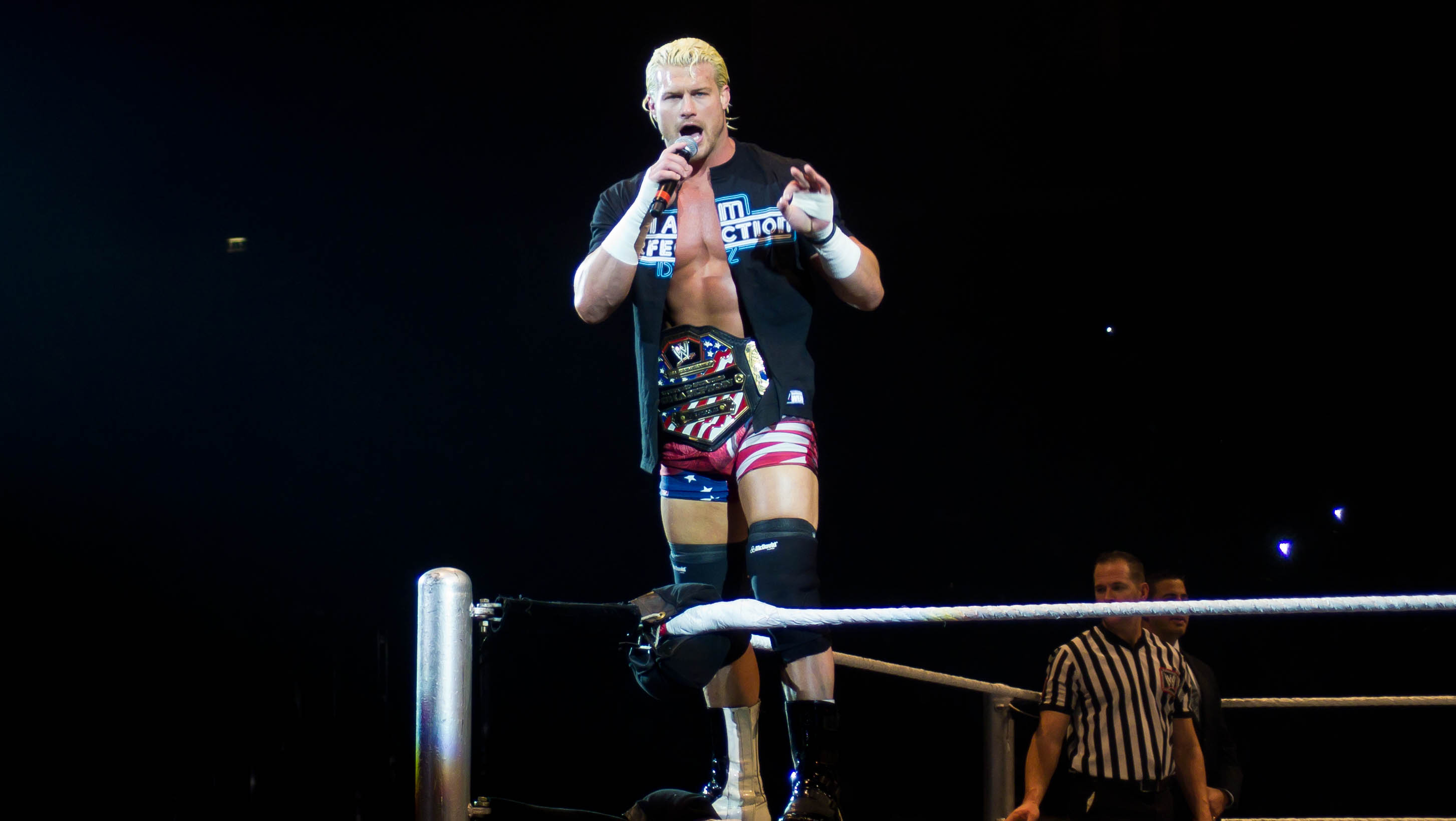 Dolph Ziggler as the WWE United States Champion at a WWE Raw house show in London in November 2011.